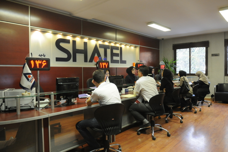 Shatel Company - Customer Services